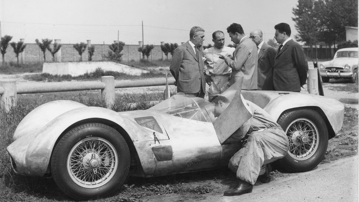 Medoardo Fantuzzi fixing a Maserati Tipo 61 Birdcage, Stirling Moss in the racing suit, on his right is Giulio Alfieri. If this is s/n 2451 (later rebuilt into the so-called "Streamliner"), it was ran (for testing purposes) by Stirling Moss in Modena on May 12, 1959.[1]